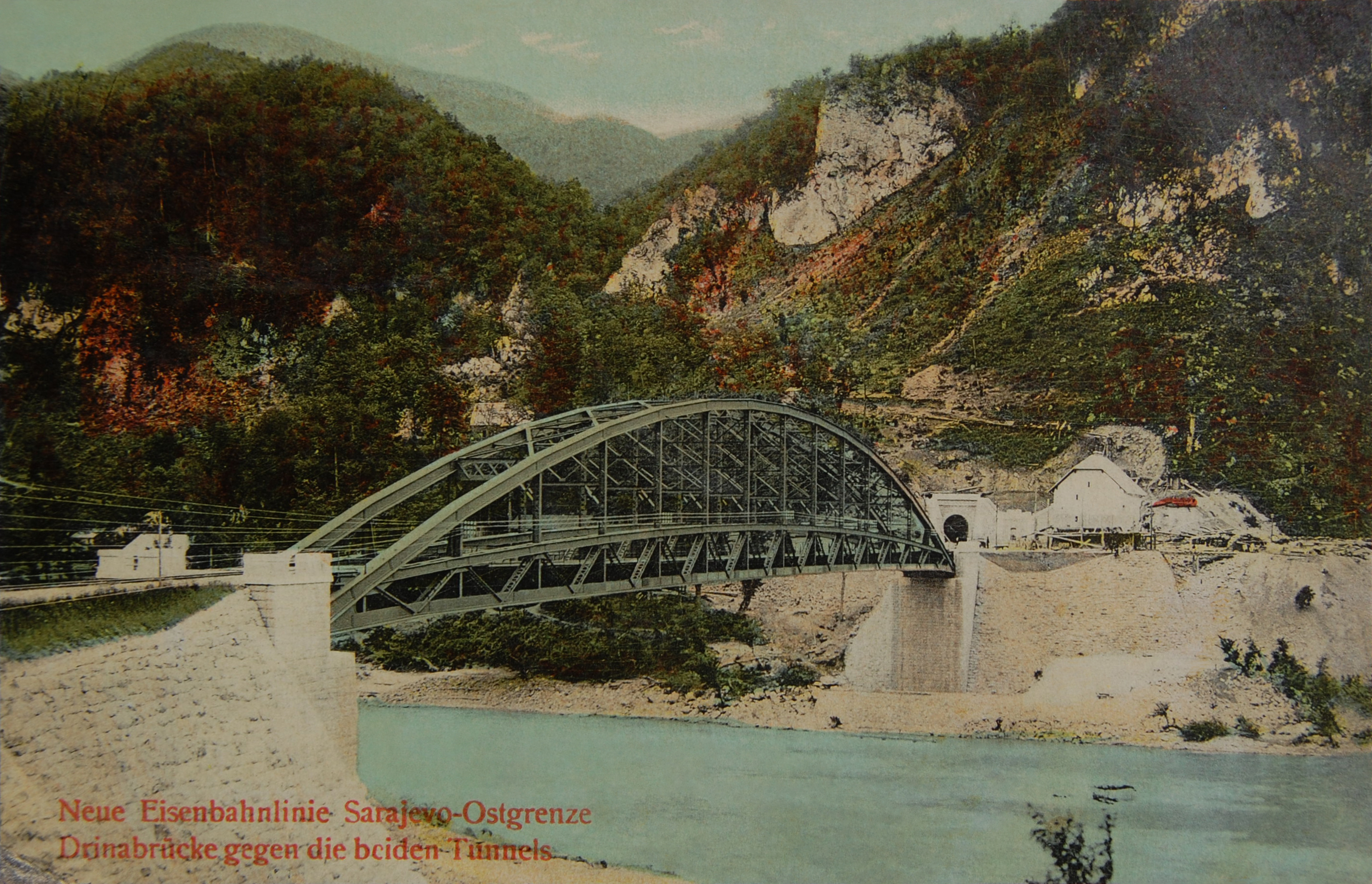 The twin tunnels at the Bridge on the Drina River, where two lines branched off, one to the left through the tunnel No.1 towards Vardište, the other to the right through the tunnel No. 65 towards Uvac. The tunnel No. 65 is behind the station building. This image was most likely taken during construction prior to opening the line in 1906.